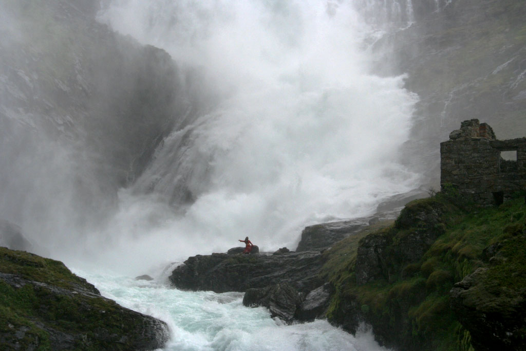 Kjosfossen, a waterfall near Flåm in the West Coast of Norway.